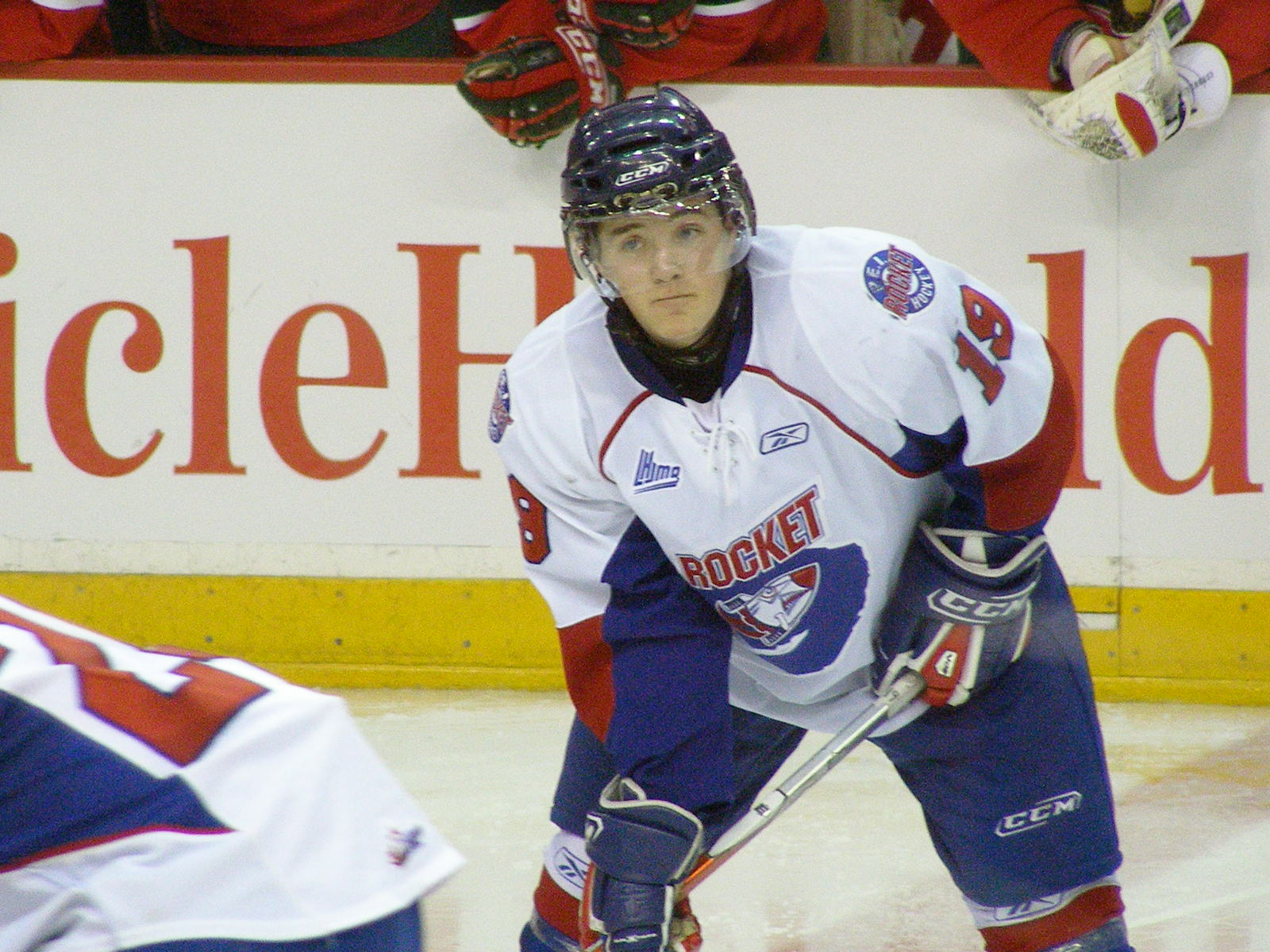 P.E.I. Rocket at Halifax Mooseheads (February 10 2010)